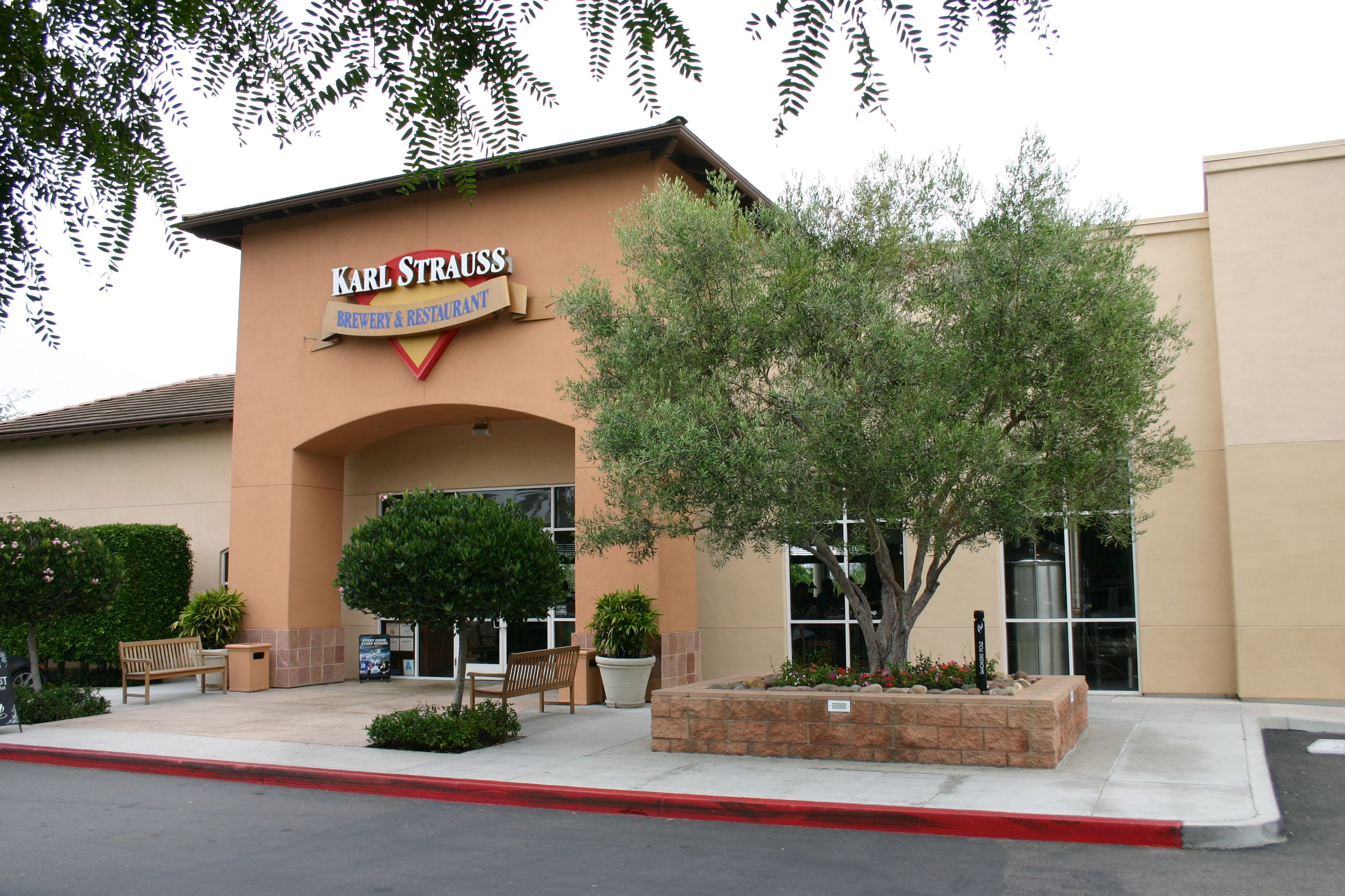 Entrance to the Karl Strauss Brewing Company's location in Carlsbad